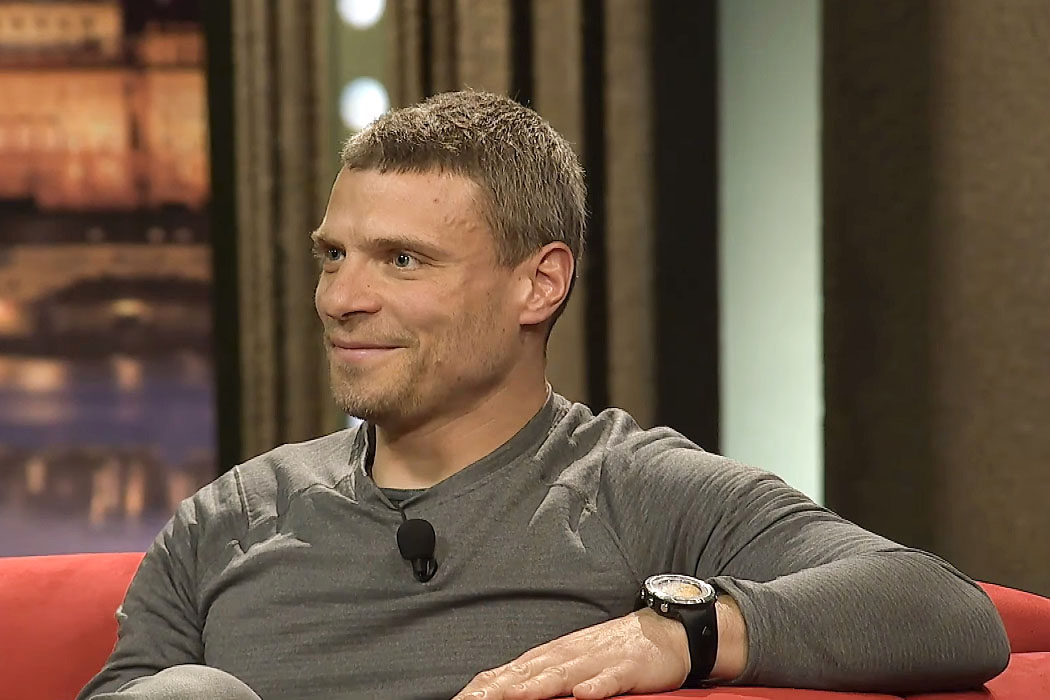 Czech surgeon Tomáš Šebek, worker for Médecins Sans Frontières